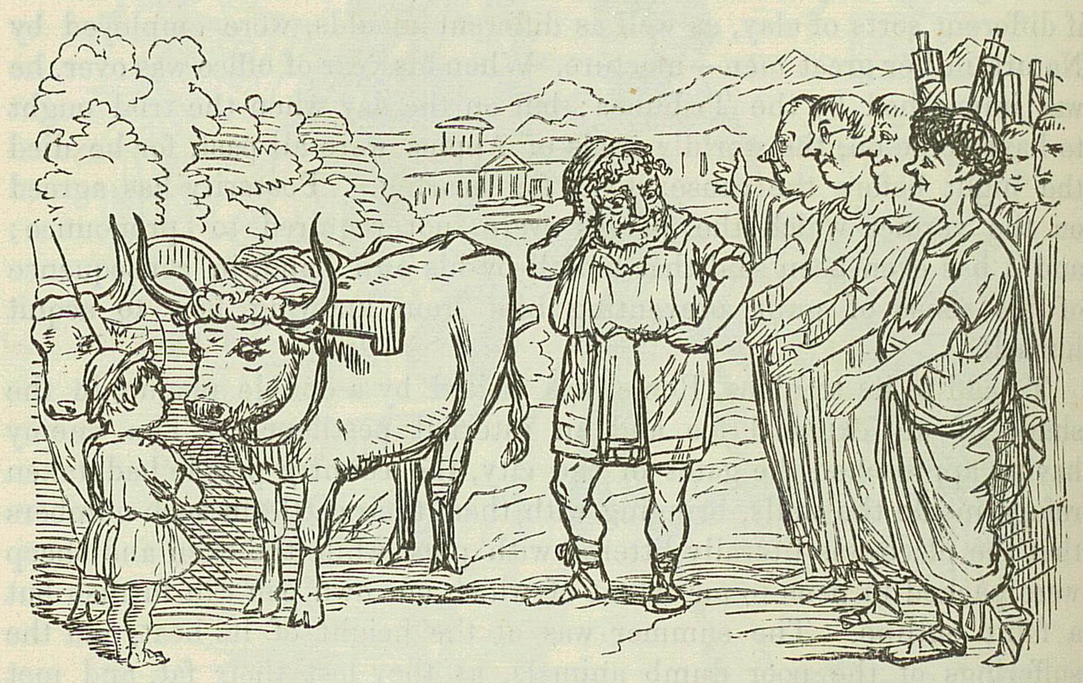 Cincinnatus chosen Dictator Image by John Leech, from: The Comic History of Rome by Gilbert Abbott A Beckett. Bradbury, Evans & Co, London, 1850s